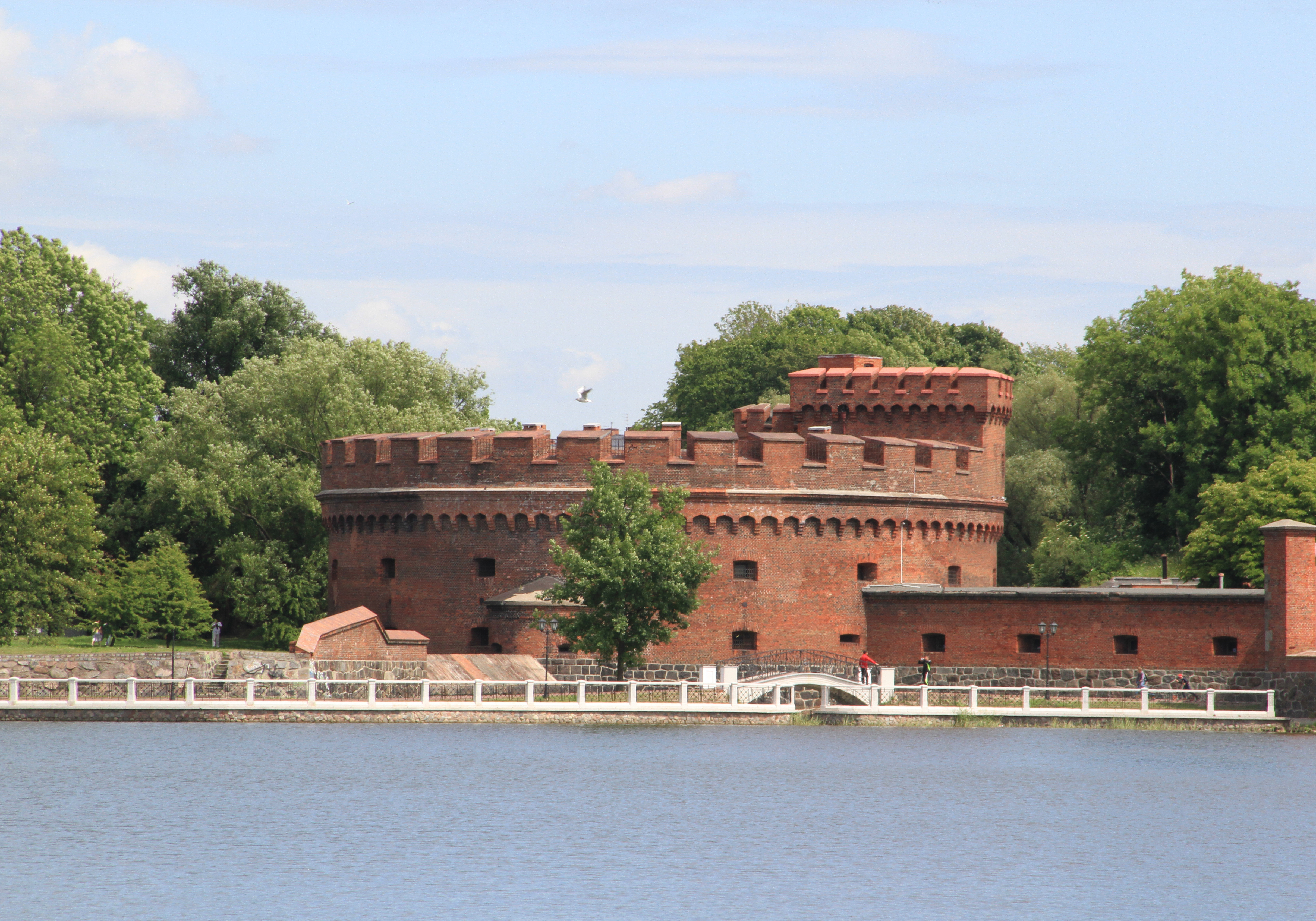 "Oberteich", lake in vicinity of Dohnatower